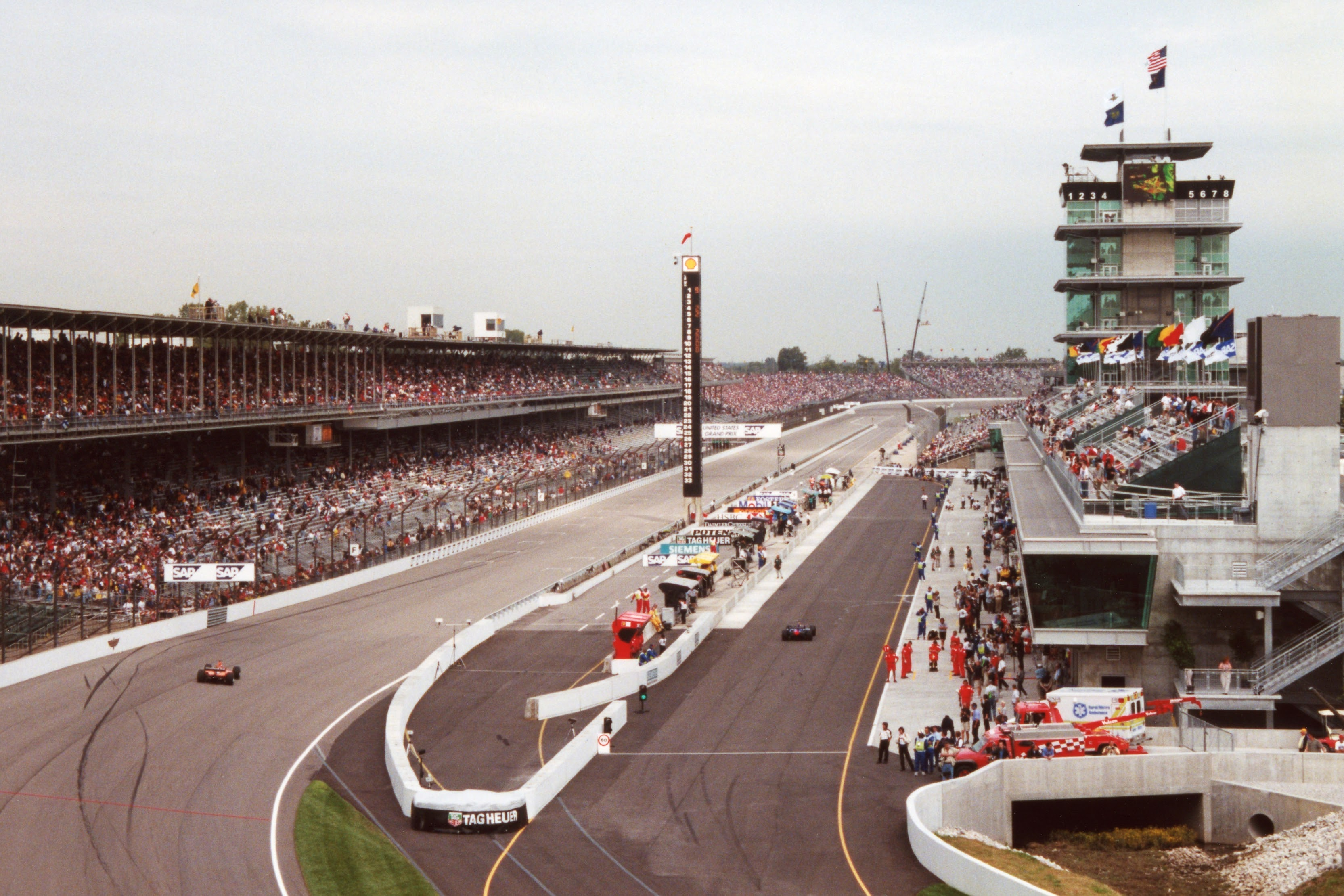 Indianapolis Motor Speedway, 2000